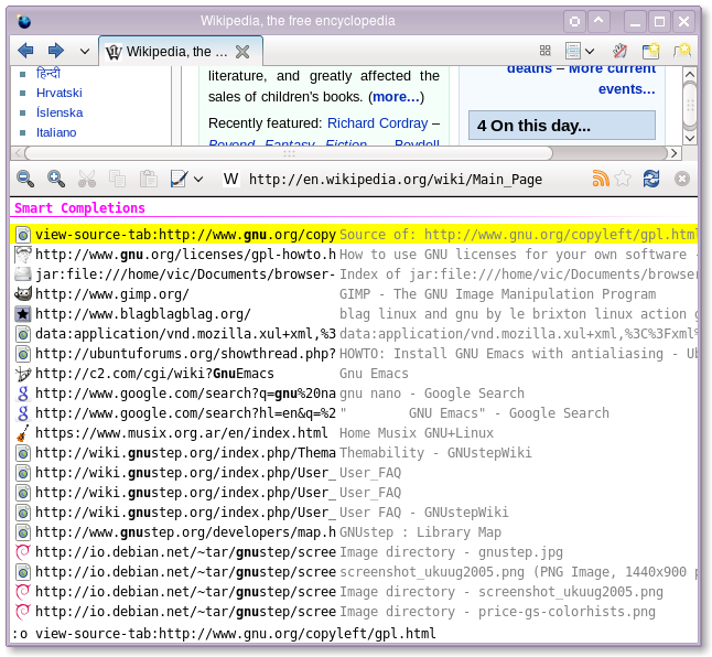 Firefox displaying Wikipedia's main page (devoid of non-free logos) obscured by Vimperator showing the results of a history search for "gnu".